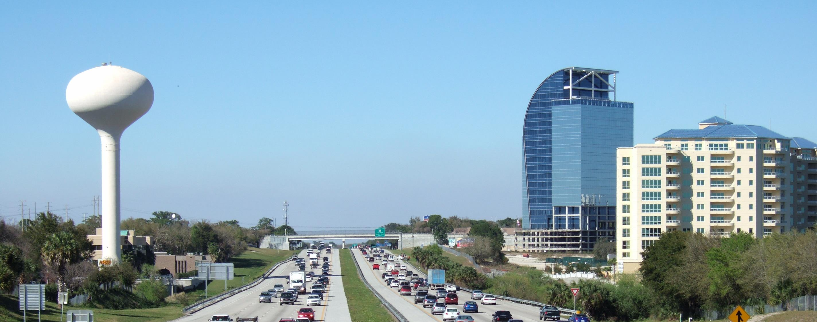 View of Altamonte Springs from I-4